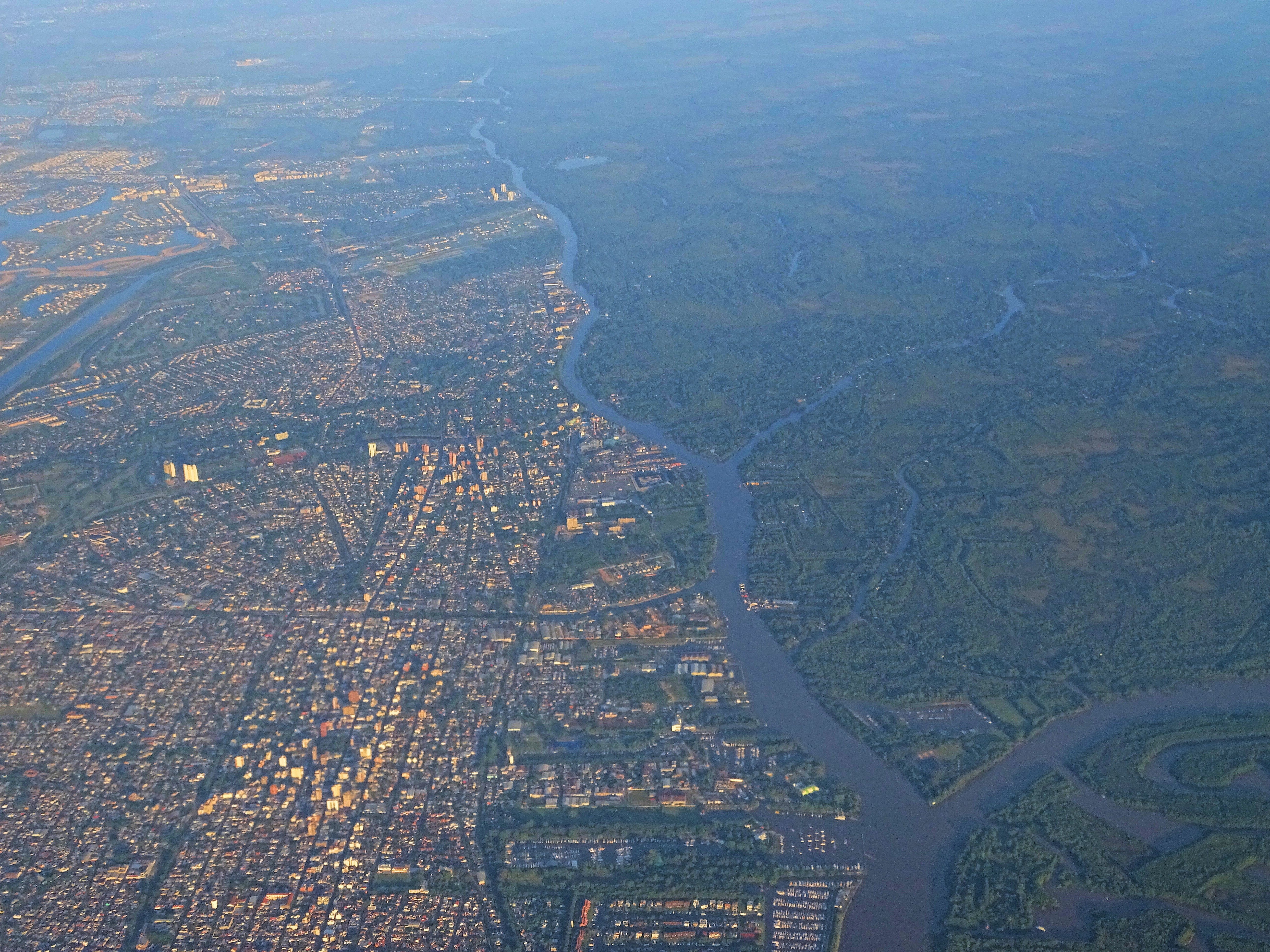 Luján River, near where it meets the sea, marks the northern border of the urban part of Buenos Aires, Argentina.